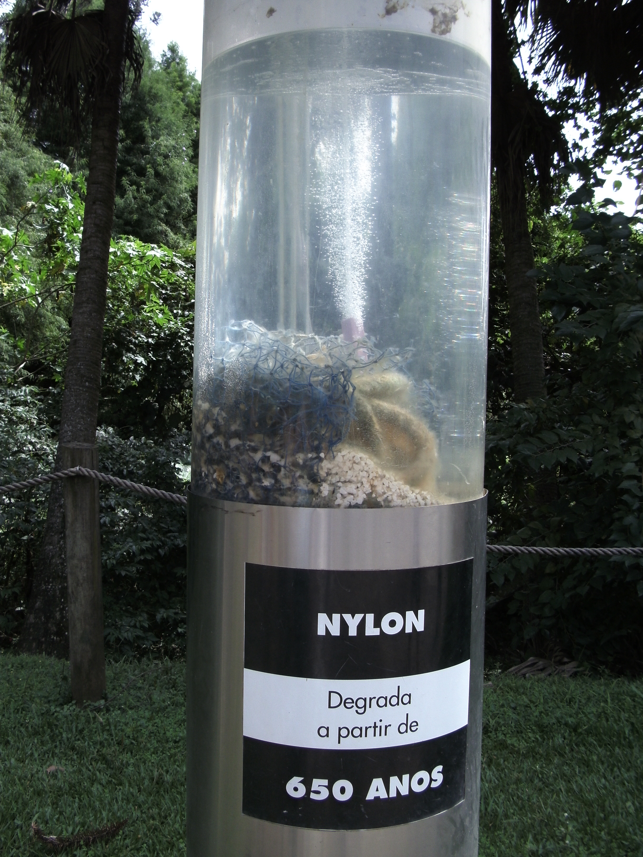 Cotton and ambientalism